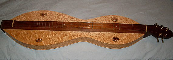 Jim Good Mountain Dulcimer made of Lacewood Sycamore, with walnut sound holes.